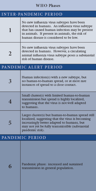 A table showing the World Health Organization (WHO) influenza pandemic phases. This was cropped from file:FedFluPandemicResponse.png. The original is in the public domain, per the website, and this crop is also released to the public domain. They request that you give attribution.